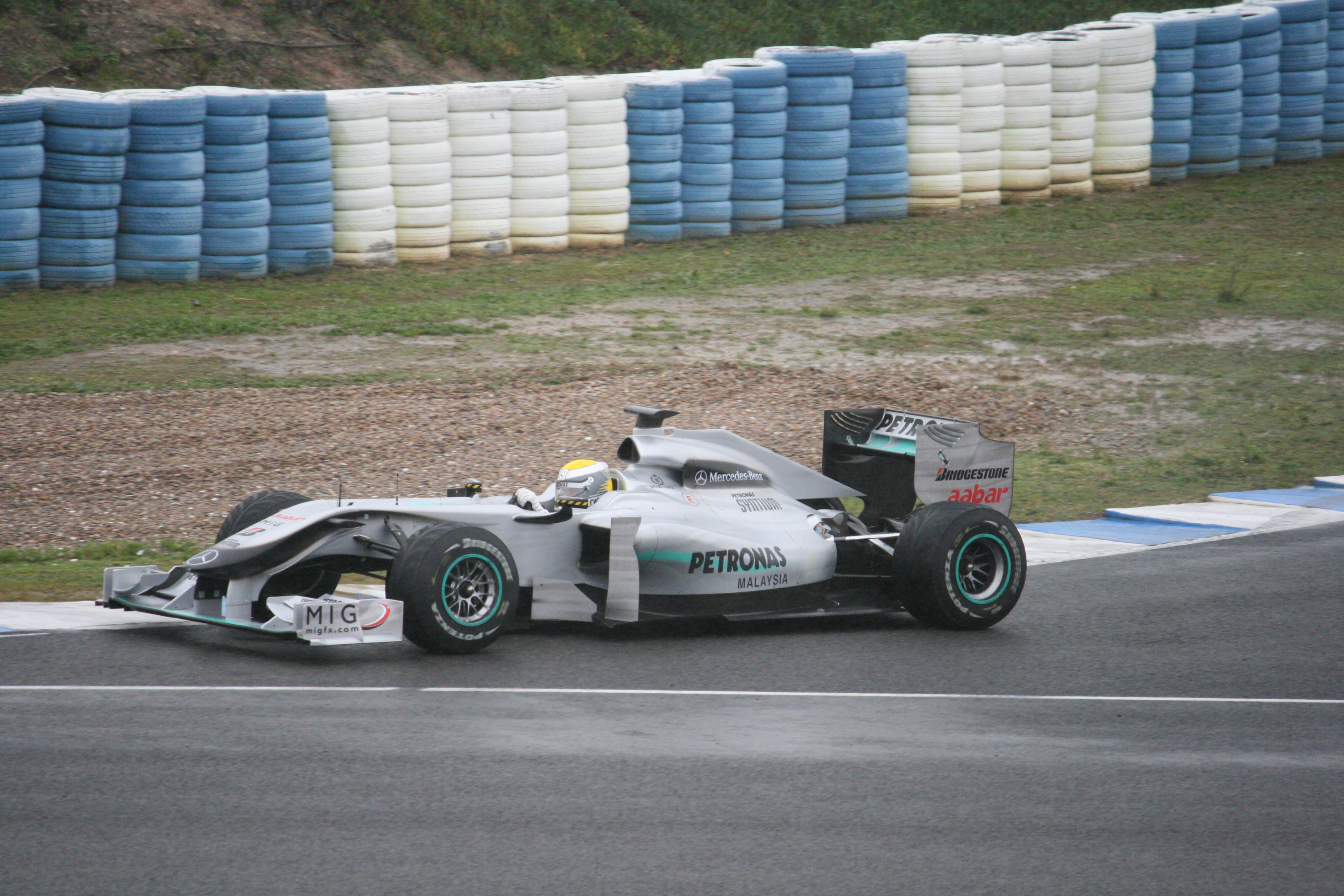 Nico Rosberg testing for Mercedes GP at Jerez, 10/02/2010.